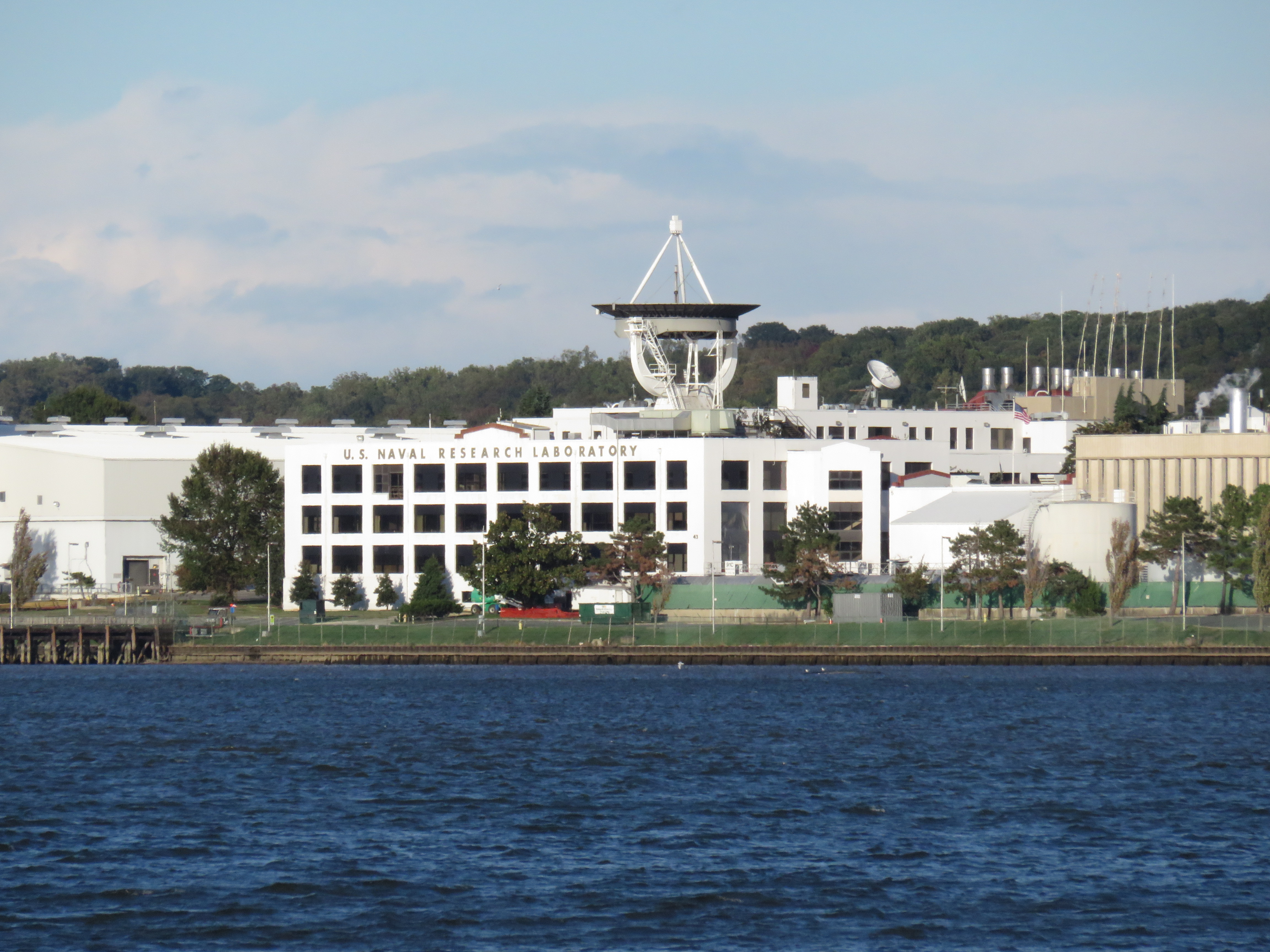 United States Naval Research Laboratory in Southwest Washington, D.C. in 2015